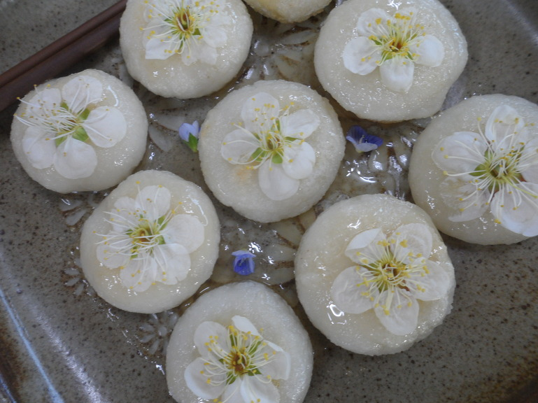 maehwajeon (plum flower pancakes)